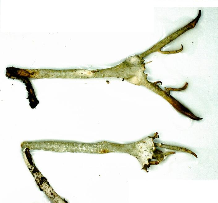 Cladonia maxima (Asahina) Ahti, 1978 Photograph of a herbarium specimens. Cladonia maxima was growing on soil along the Blue Trail at the Humboldt Field Research Institute on Eagle Hill in Steuben, Washington County, Maine, USA (Lat. 44o27.585' N, Long. 67o56.016' W). Collected by E.C. Uebel, identified by Dr. David H.S. Richardson (No. U-107, 11 Jun 2001).